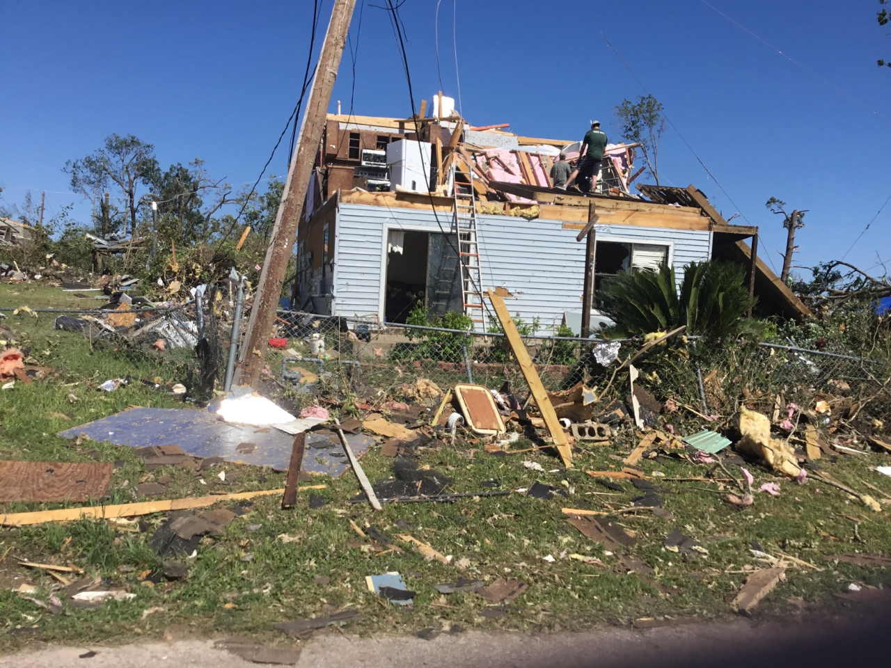 EF3 damage to a house in Onalaska, Texas.